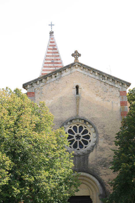 Church of the village of Entrechaux - Vaucluse, France